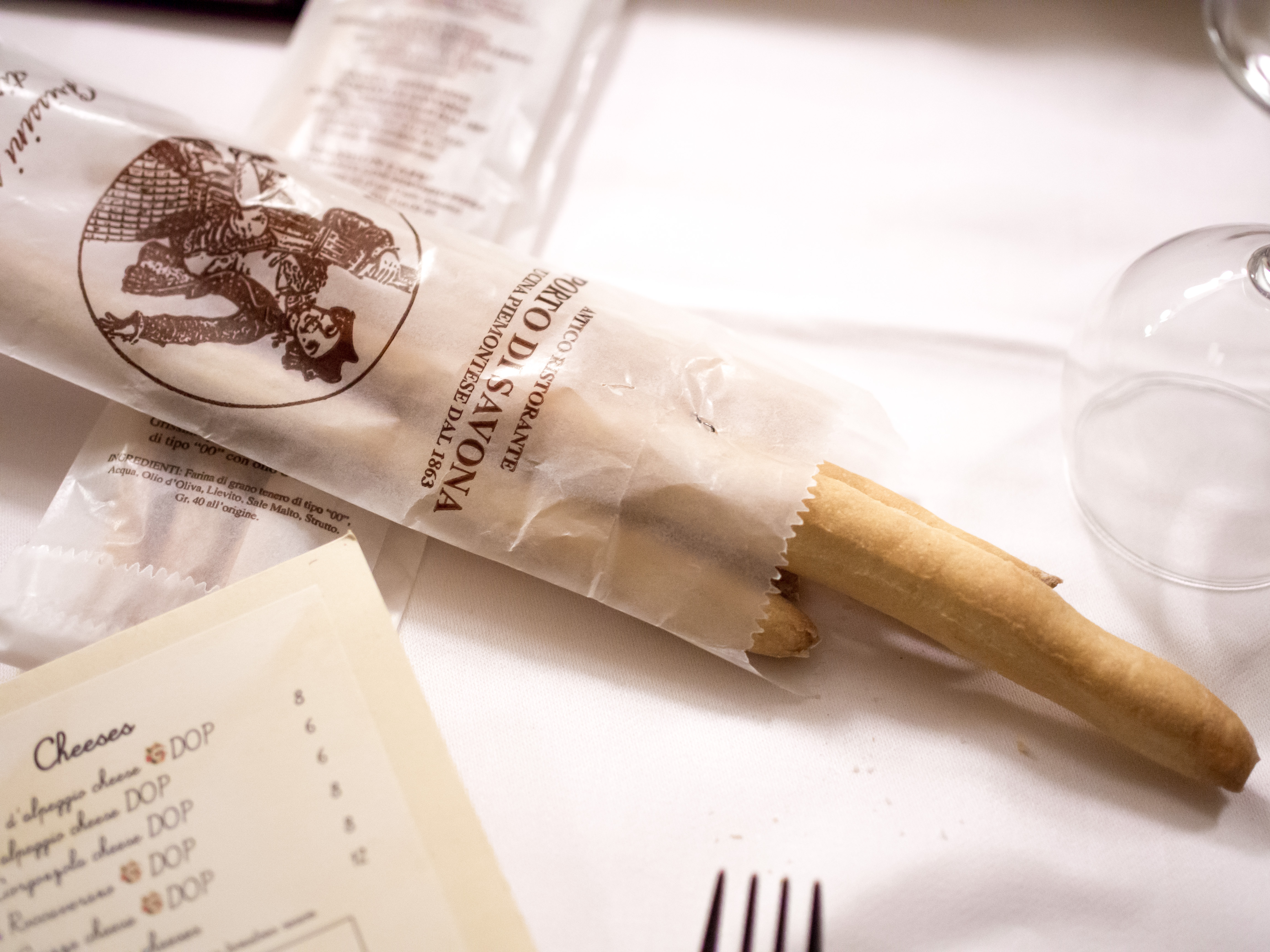 "Grissini", the breadsticks that originate from Turin, in a restaurant in Turin.